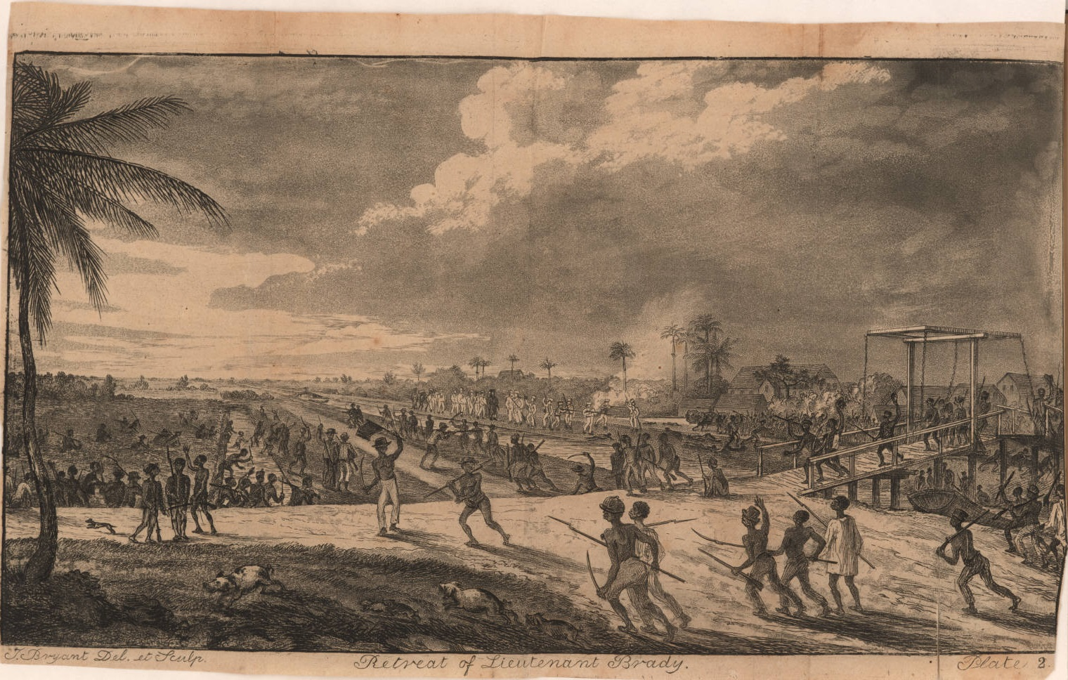 Account of an insurrection of the negro slaves in the colony of Demerara, which broke out on the 18th of August, 1823. (Retreat of Lt. Brady) Large group of blacks (slaves) force the retreat of European soldiers. Includes canal, boat, drawbridge, dwellings, guns or muskets, flag, hogs, pigs, dogs, and bayonnets.